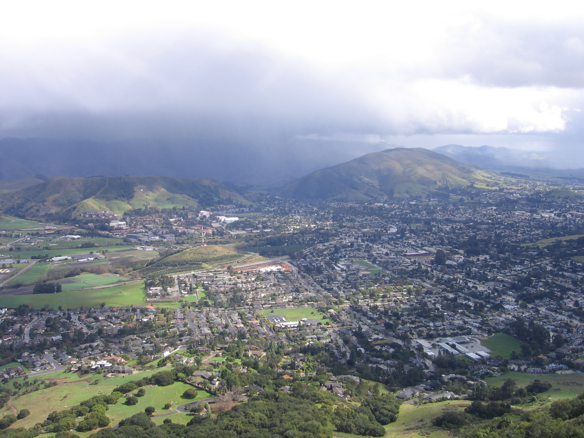 San Luis Obispo looking east from the top of Bishop Peak. There is some rain in the background.